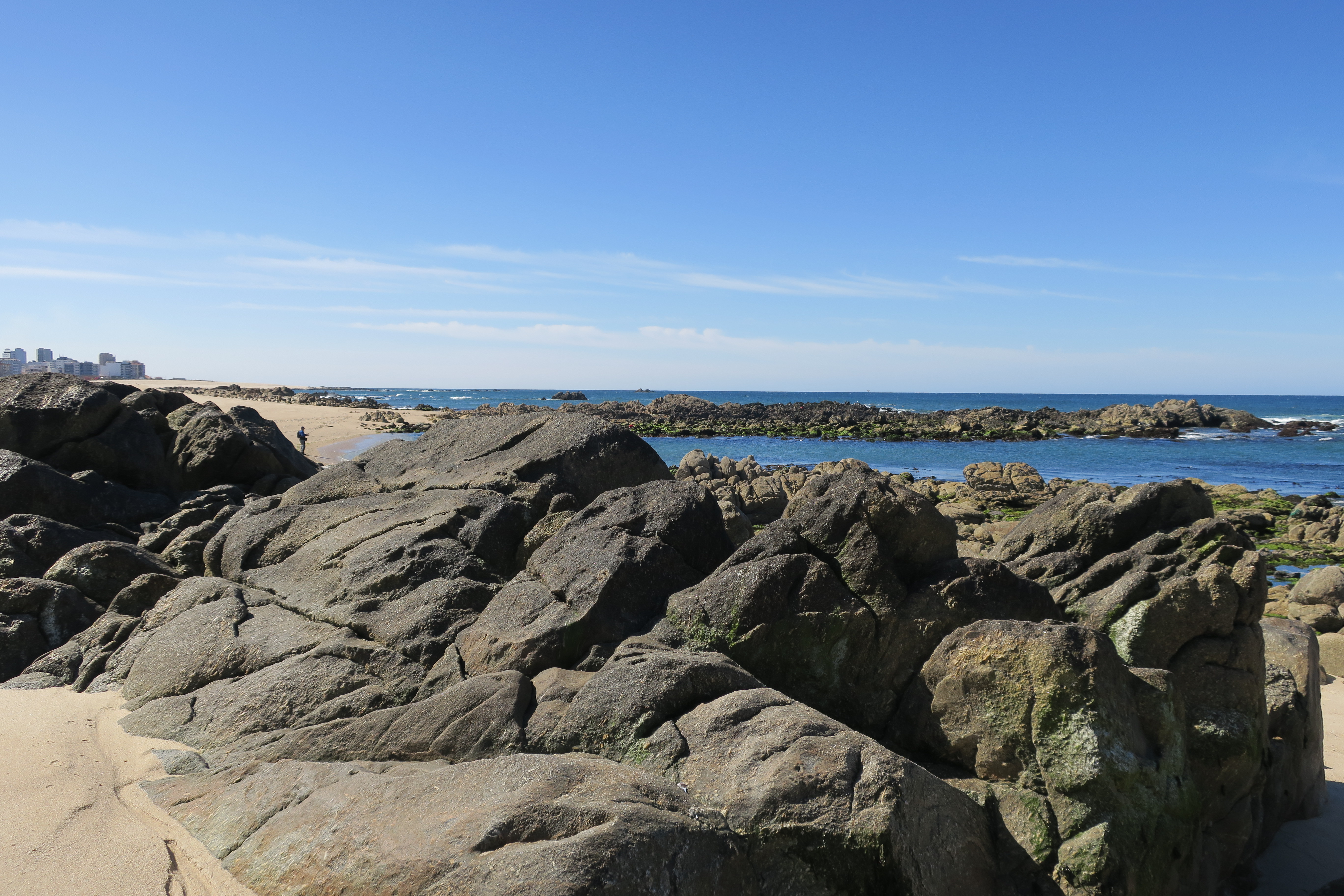 Quião beach, Povoa de Varzim, Portugal